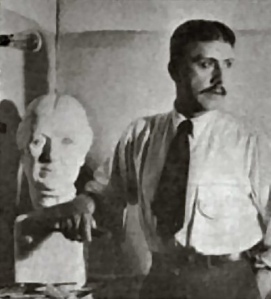 Stuart Holmes, villain, in many great pictures, who plays the lead in "Love, Honor and ——"